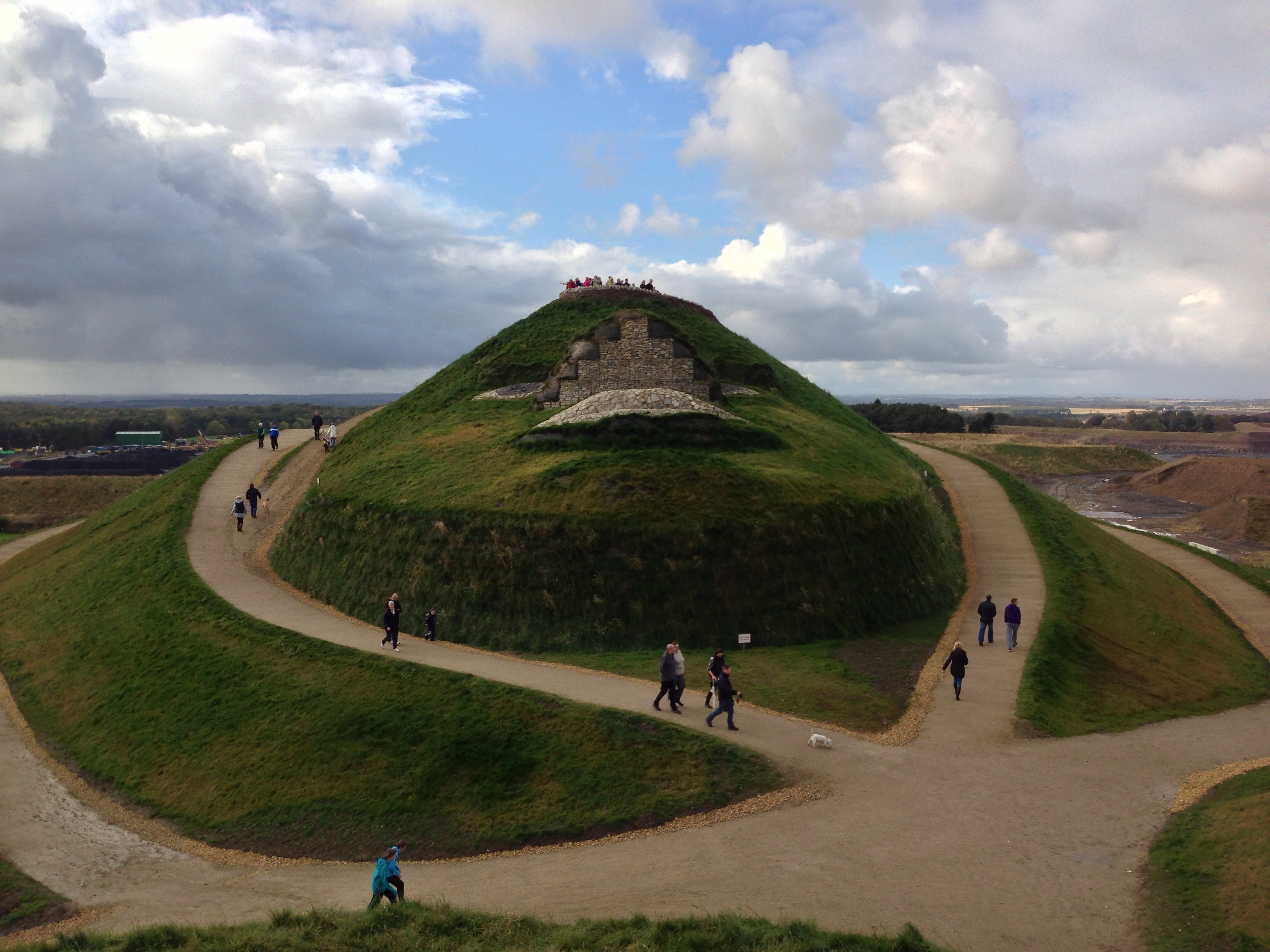 The face of the Northumberlandia land form sculpture, showing her lips, the underside of her nose, eyes and forehead.